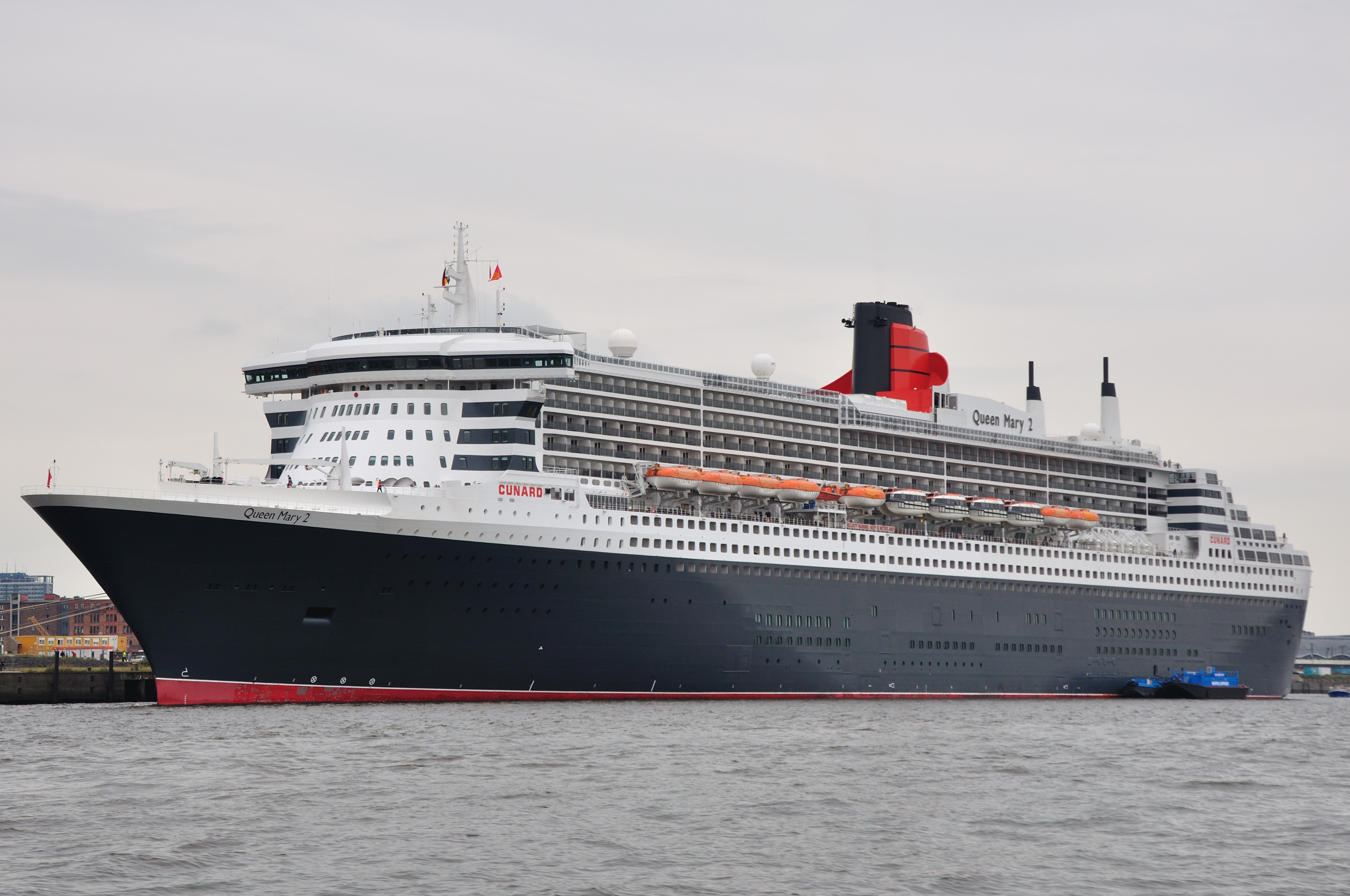 Germany, Hamburg, RMS Queen Mary 2 in Hamburg on August 26, 2010